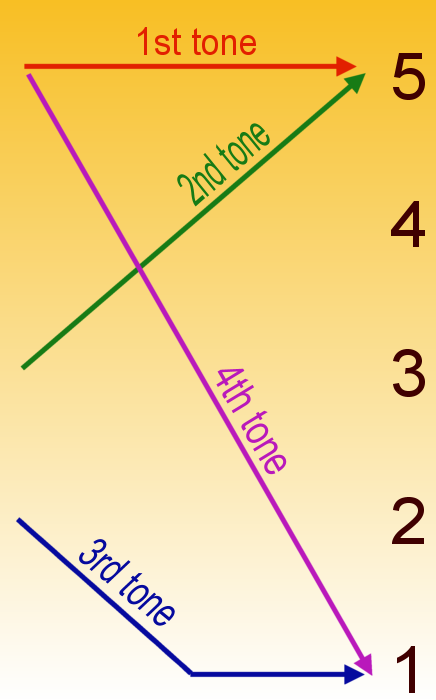 Chart demonstrating the half-third tone. A german version in SVG is available under Image:Vier Toene des Hochchinesischen mit halb-drittem.svg though rendered badly.